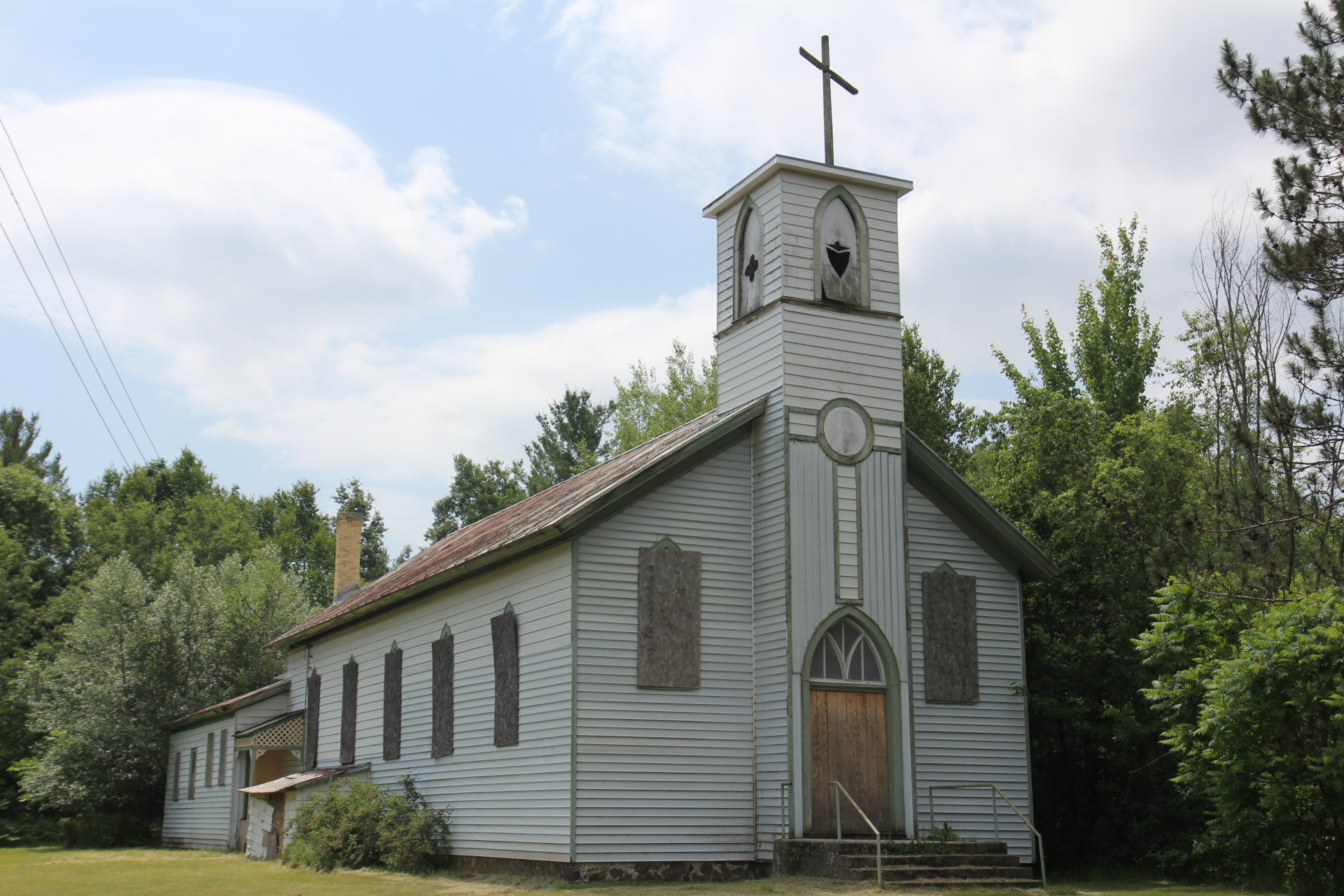 The Saint Joseph of the Lake Church in Menominee County, Wisconsin. It is listed on the National Register of Historic Places. The church served Menominee Indians and was critical to the survival of the tribe's language and culture.